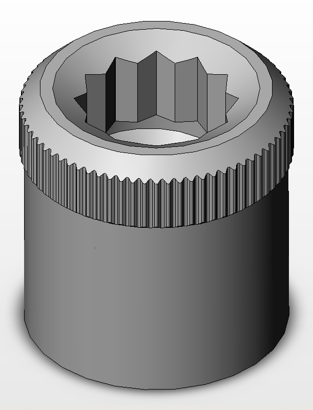 3D model of a internal wrenching nut, commonly called an Allen nut.